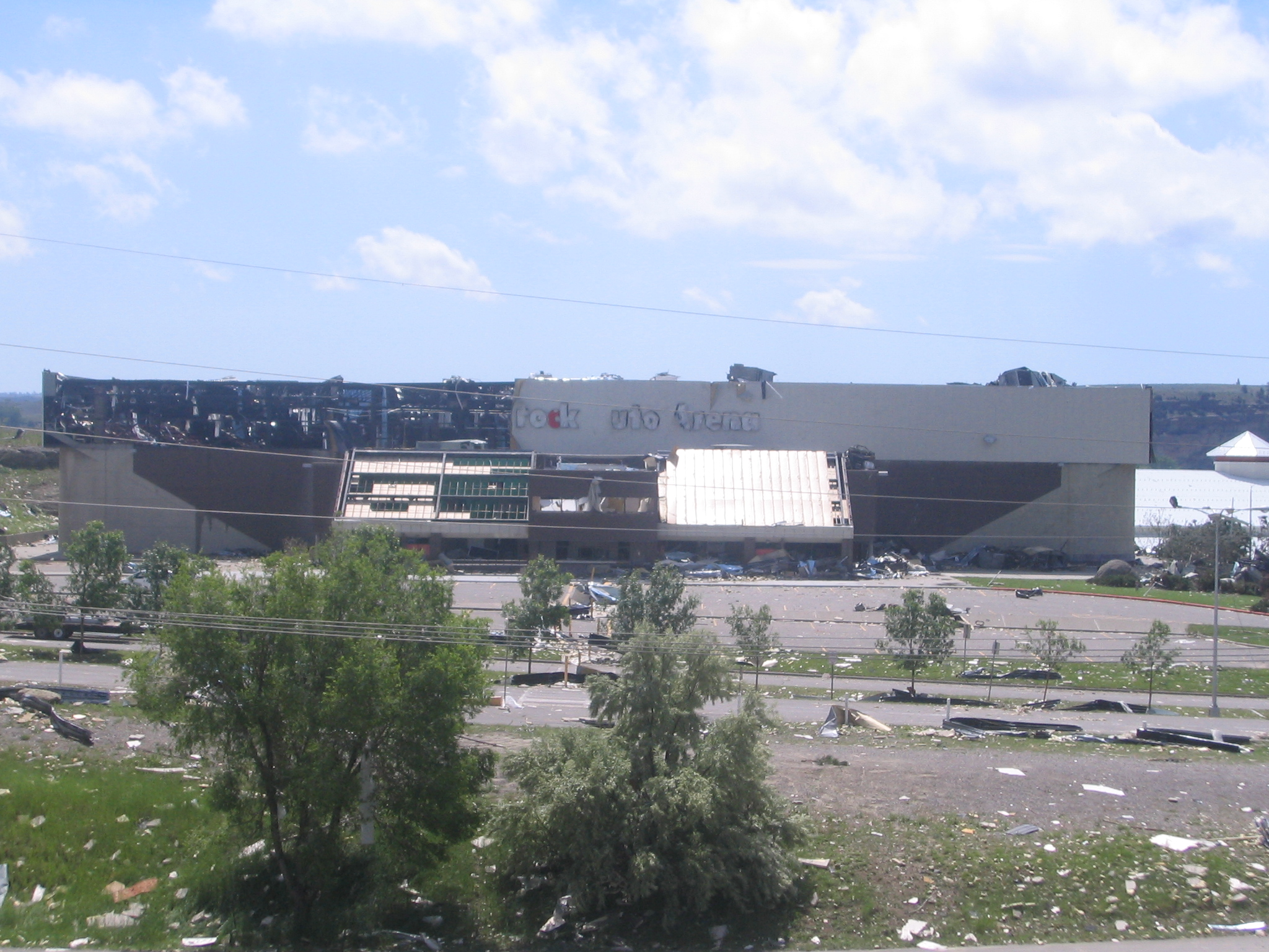 Photo of Tornado damage to MetraPark Arena